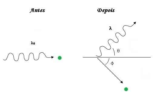 Compton effect , Efeito Compton